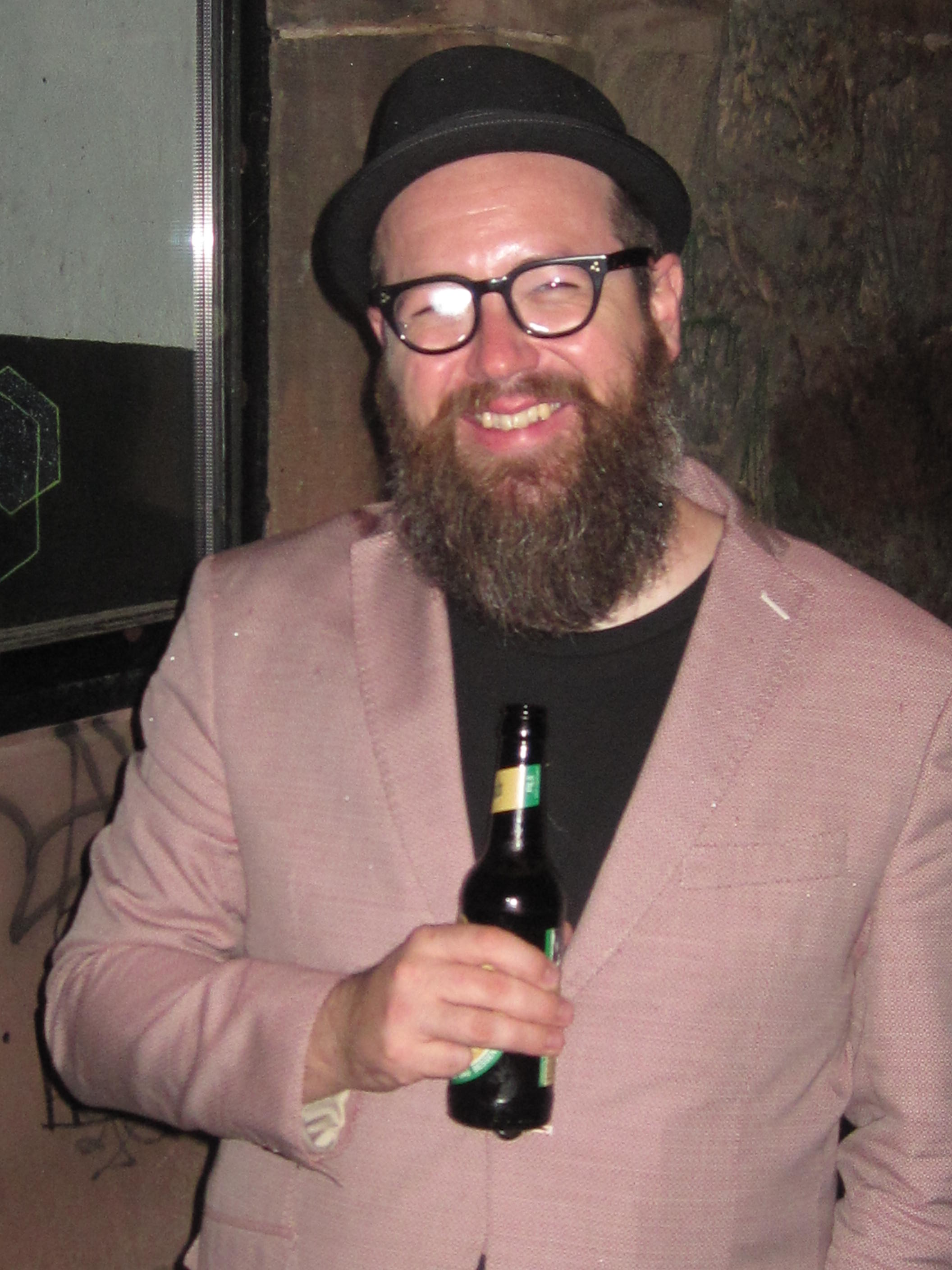 American cornettist Kirk Knuffke after concert at jazz club Cavete in Marburg, Germany, may 2018.